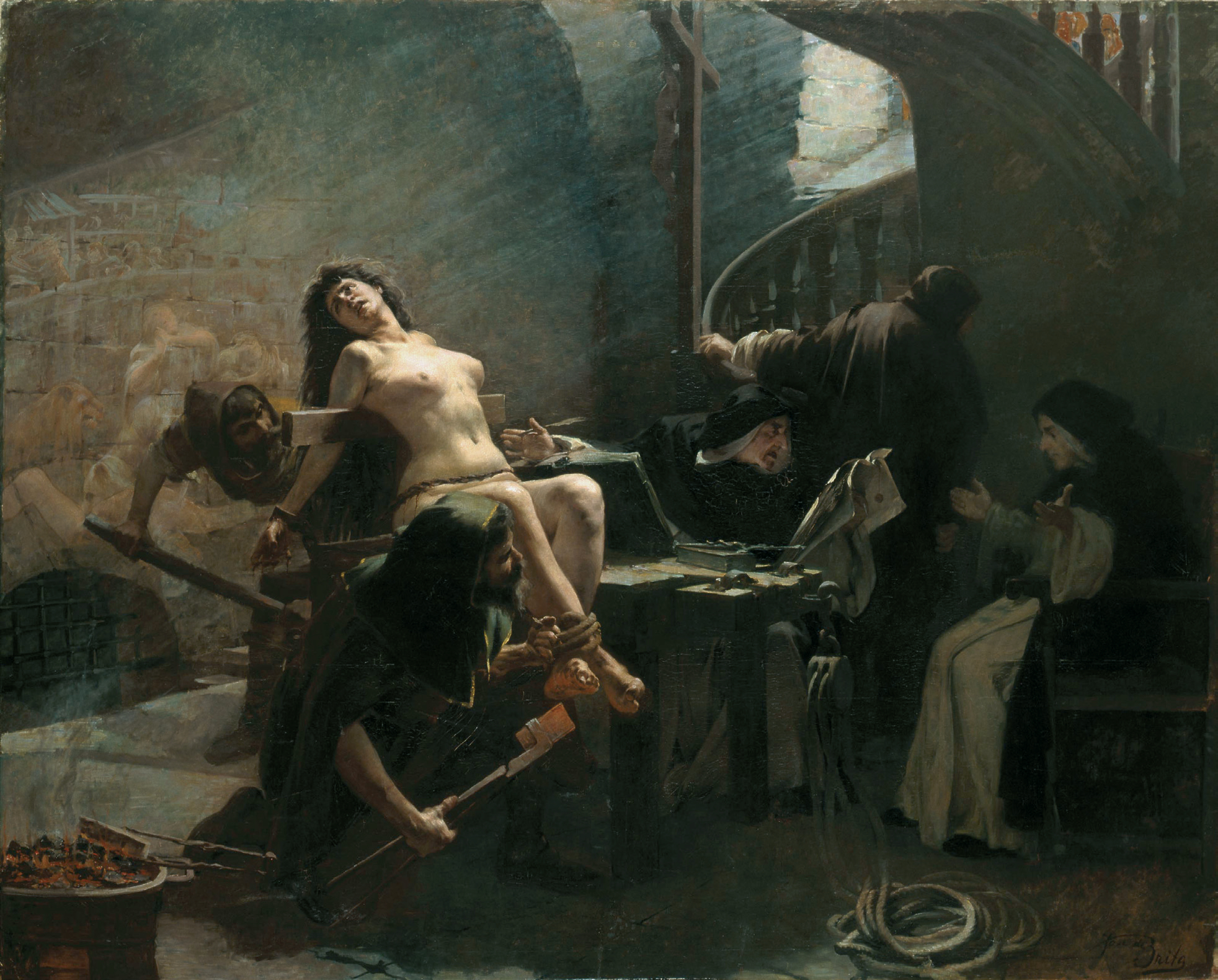 It shows a young woman being tortured by the Inquisition.